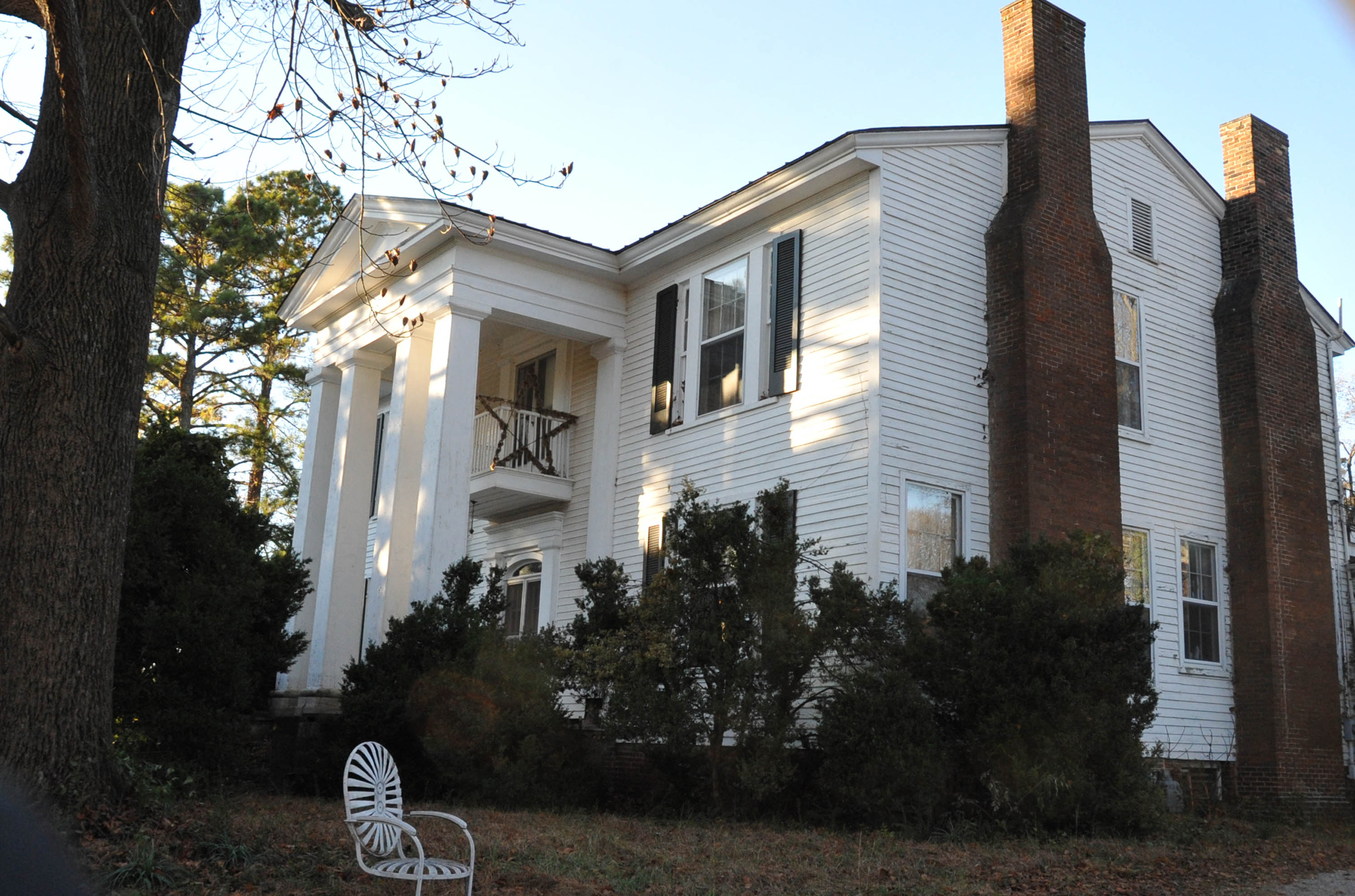 BUILT IN 1850 BY WILLIAM LANDFORD; HIS DAUGHTER MARRIED DR JOHN R. SLAUGHTER WHO MOVED HIS PRATICE TO THIS HOUSE. LATER IN 1913 THE HOUSE WAS SOLD TO WILLIAM CAMPER, A MERCHANT AND HOTEL OWNER IN HUNTSVILLE